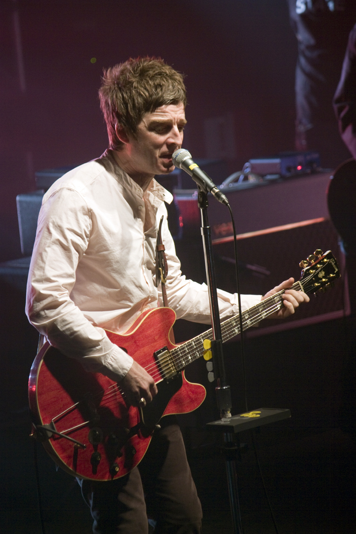 Noel Gallagher and the High Flying Birds on stage at Razzmatazz, Barcelona, Spain.